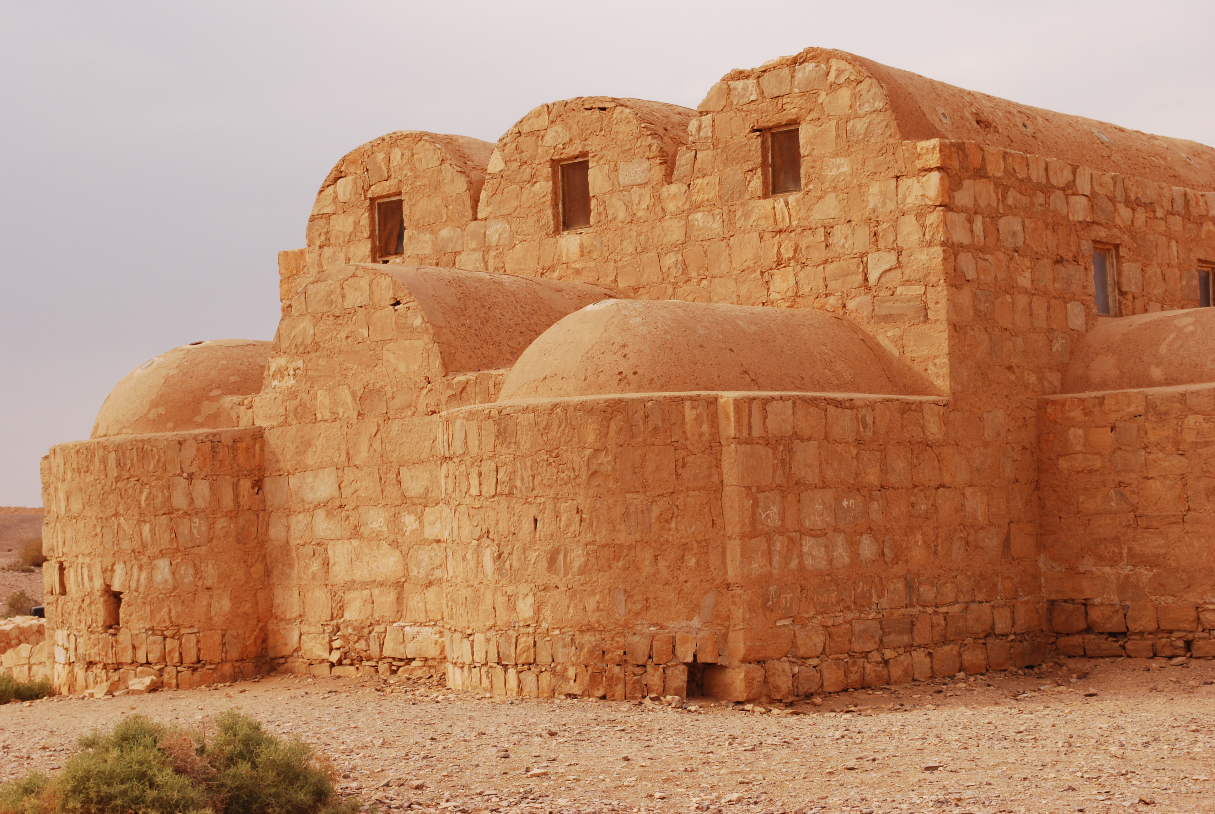 Stone walls and packed mud coated roofs of Quseir Amra.